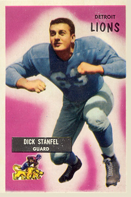 American football player Dick Stanfel on a 1955 Bowman card.